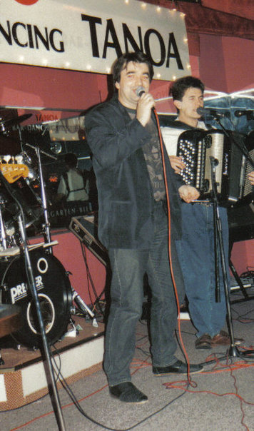 Eso Samardzic performing in Tanoa